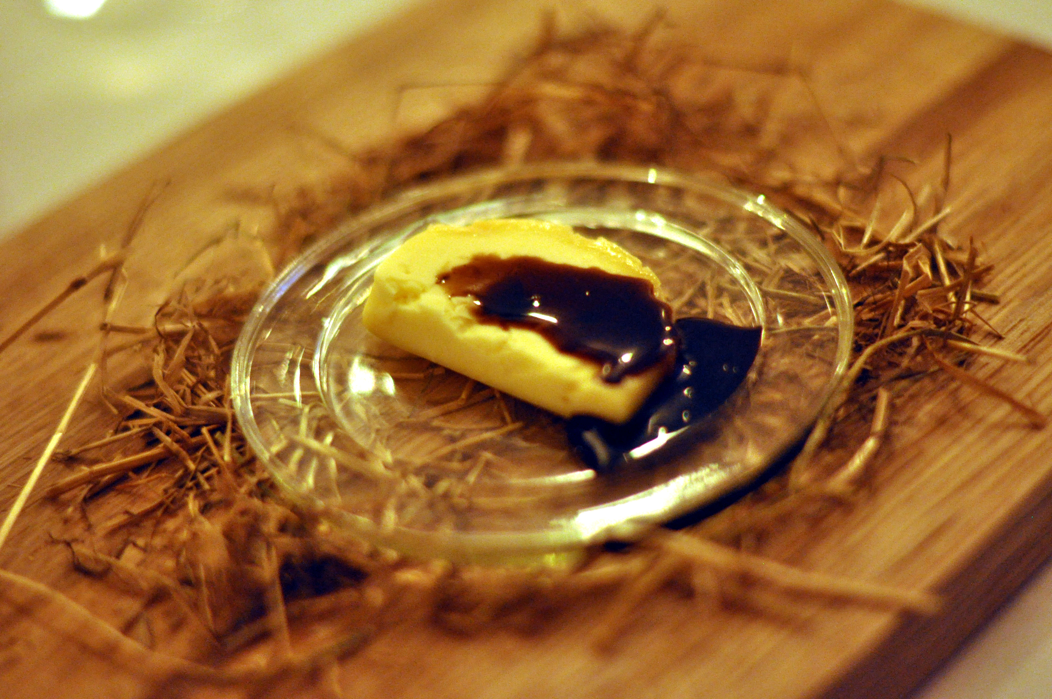 Restaurant AOC: Røget gnalling med stoutsirup (Smoked Gnalling (?cheese) with stout syrup)